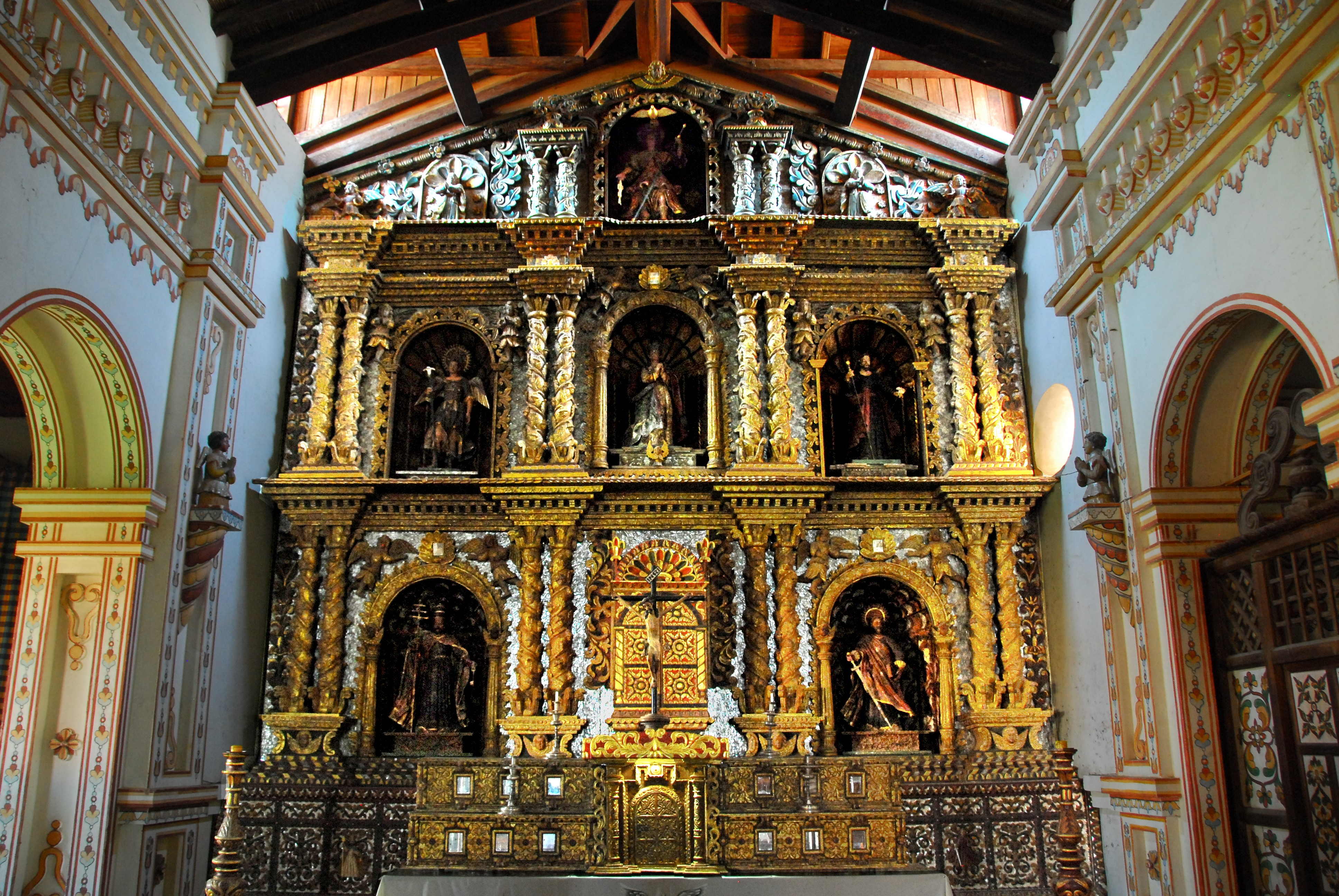 Altar in the church of San Rafael de Velasco, Santa Cruz, Bolivia. Part of the Jesuit Missions of the Chiquitos World Heritage Site.